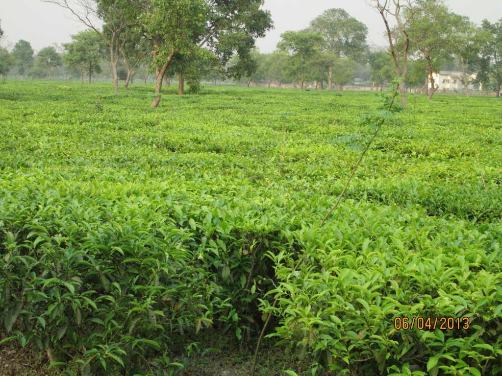 tea garden at bagdogra siliguri